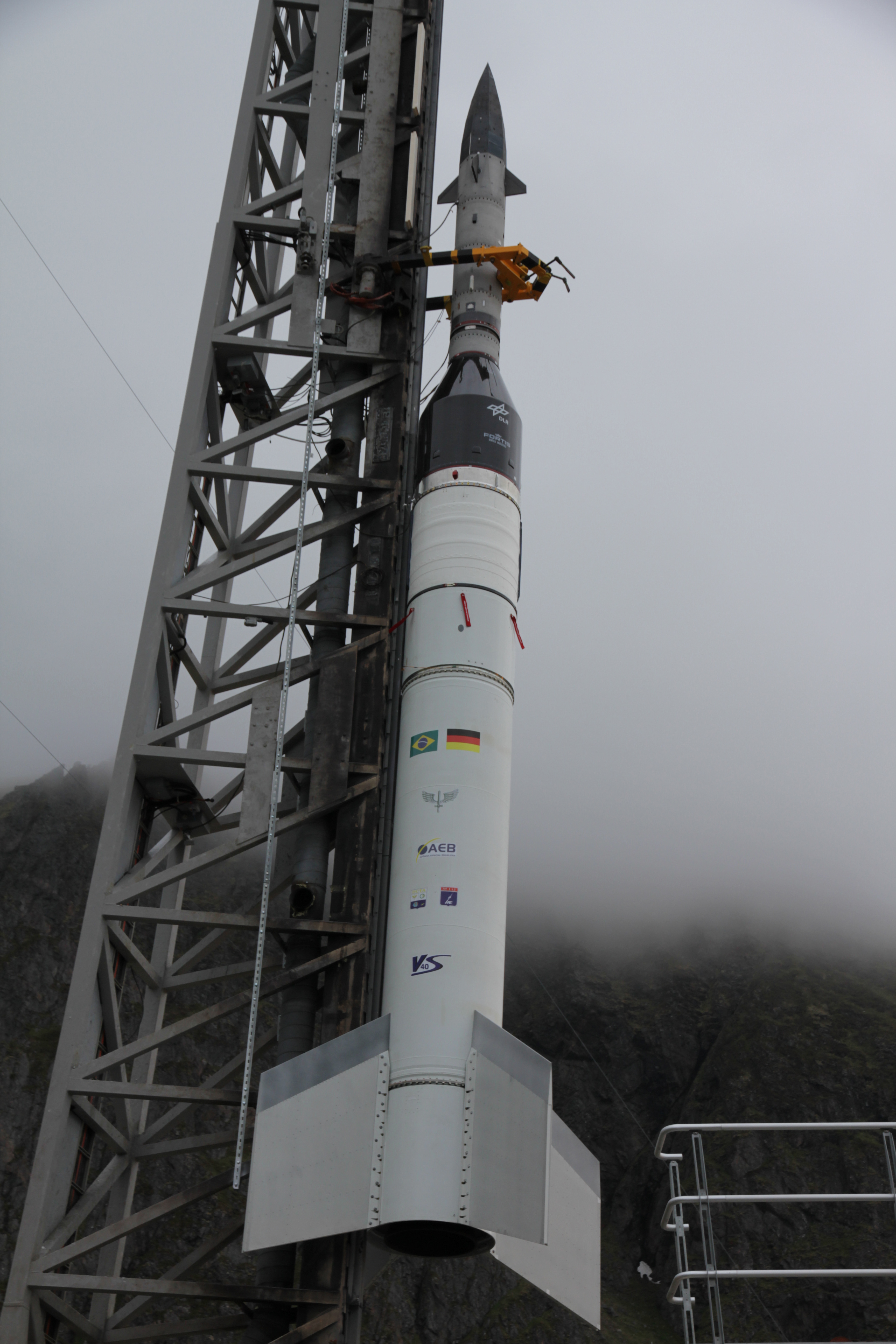 SHEFEX 2 DLR experiment atop of a VS-40M Brazilian rocket at Andoya Rocket Range, ready for launch.